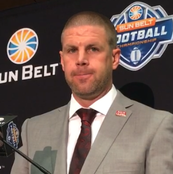 Billy Napier, head coach of the Louisiana Ragin' Cajuns football team, at the 2018 Sun Belt Conference Media Day in the Mercedes-Benz Superdome in New Orleans.